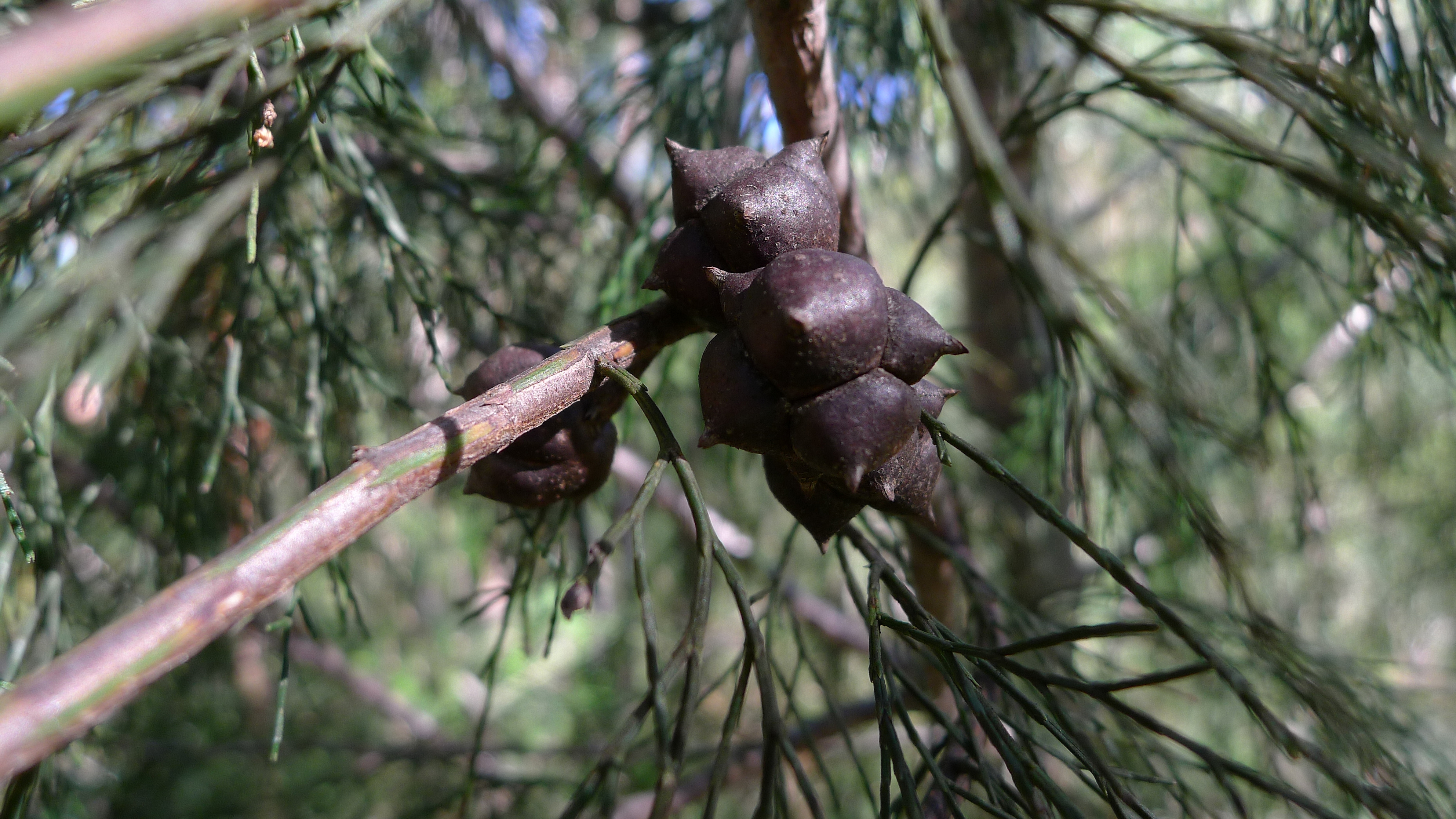 Callitris rhomboidea. Woronora Reserve, Barden Ridge, NSW Australia, December 2011.